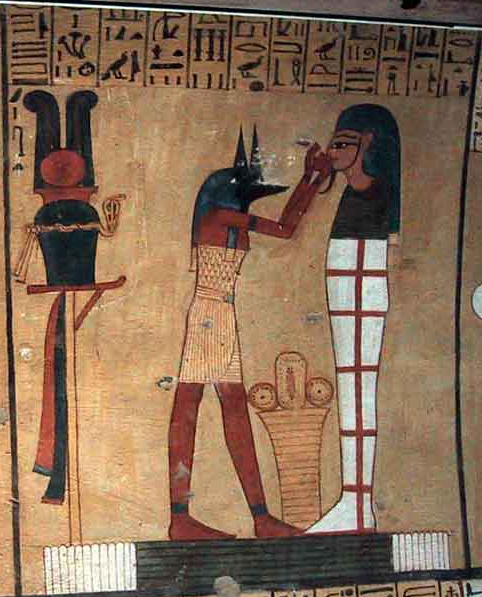 Theban Tomb 359, Anubis with a mummy, 12th century BC